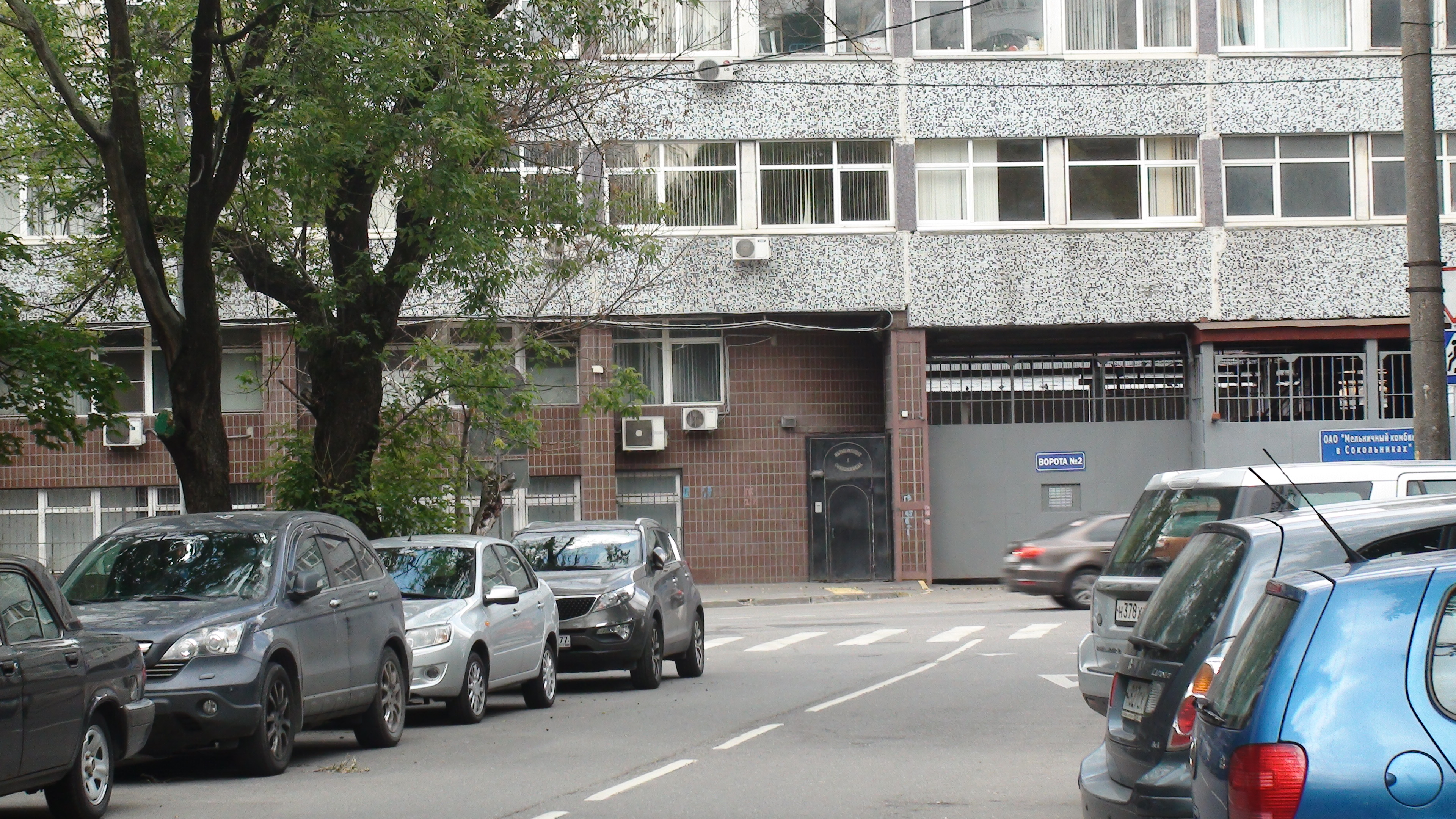 Район города Москвы Сокольники